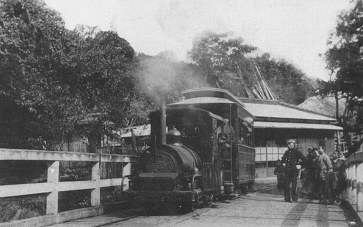 Atami Railway in Taisho era